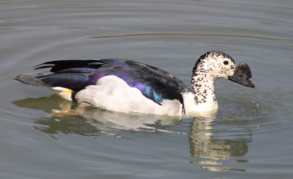 A male Knob-billed Duck swimming.